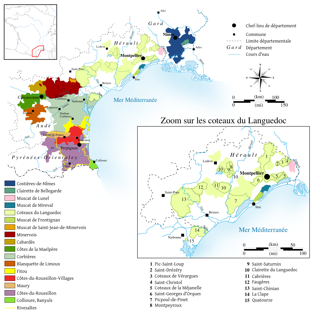 Wine-growing areas of Languedoc-Roussillon